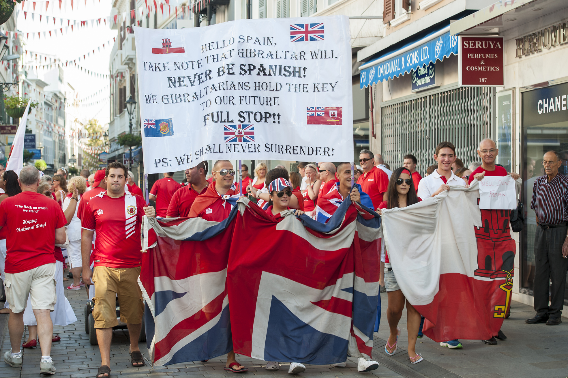 Gibraltar National Day_001